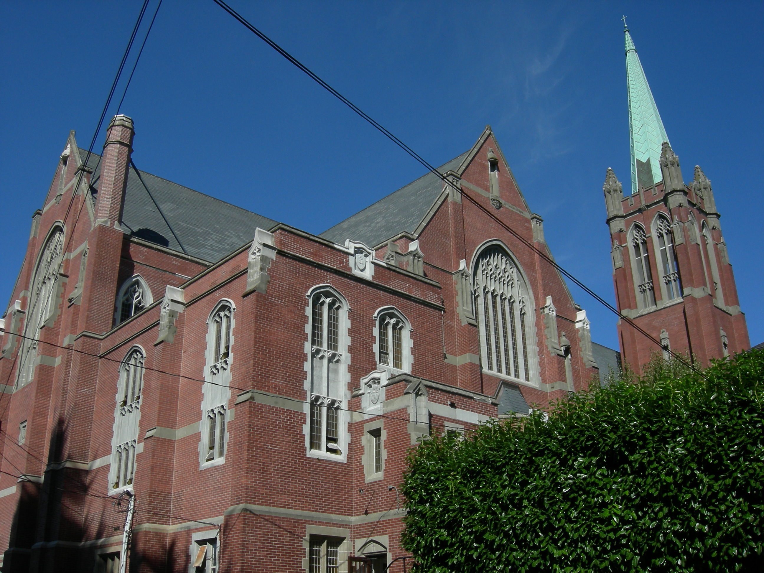 Blessed Sacrament Church (Roman Catholic), University District, Seattle, Washington. The church is on the National Register of Historic Places (along with its priory and school).